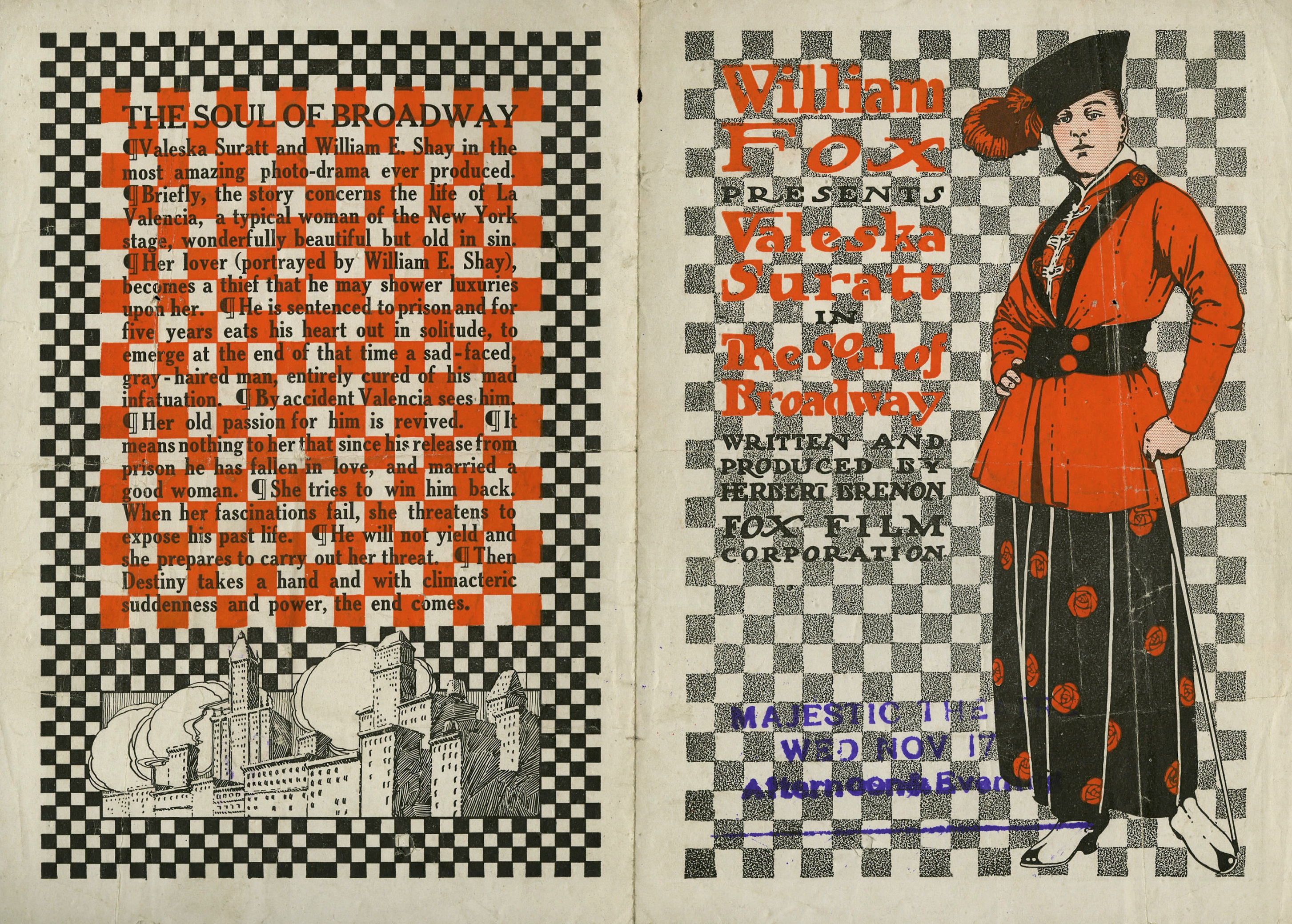 The Soul of Broadway was a 1915 American silent crime drama film produced and distributed by the Fox Film Corporation and directed by Herbert Brenon. This is a pamphlet for the film.